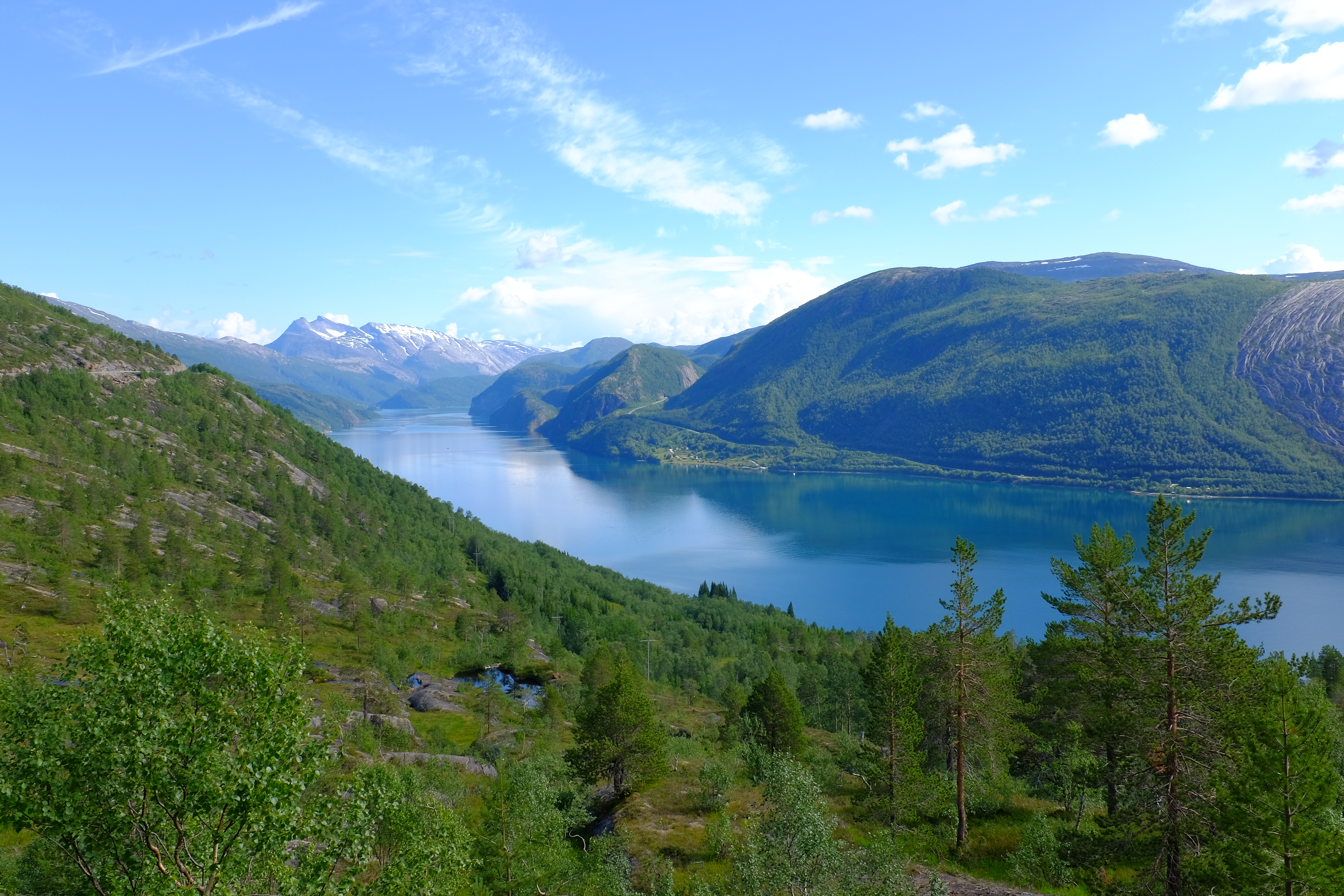 Inner part of Leirfjorden with the village Sommerset on the other side of the fjord. The area is known for its hundreds of mountain peaks and many fjords.